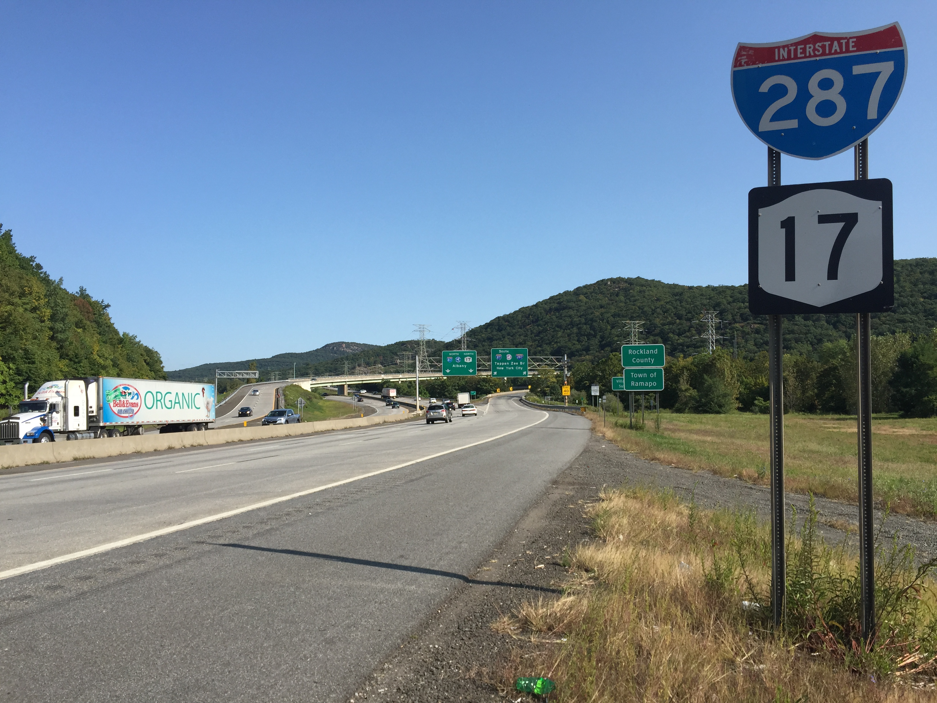 View north along Interstate 287 and New York State Route 17 (Middlesex Freeway) just south of Interstate 87 (New York State Thruway) within Hillburn Village in the Town of Ramapo, Rockland County, New York